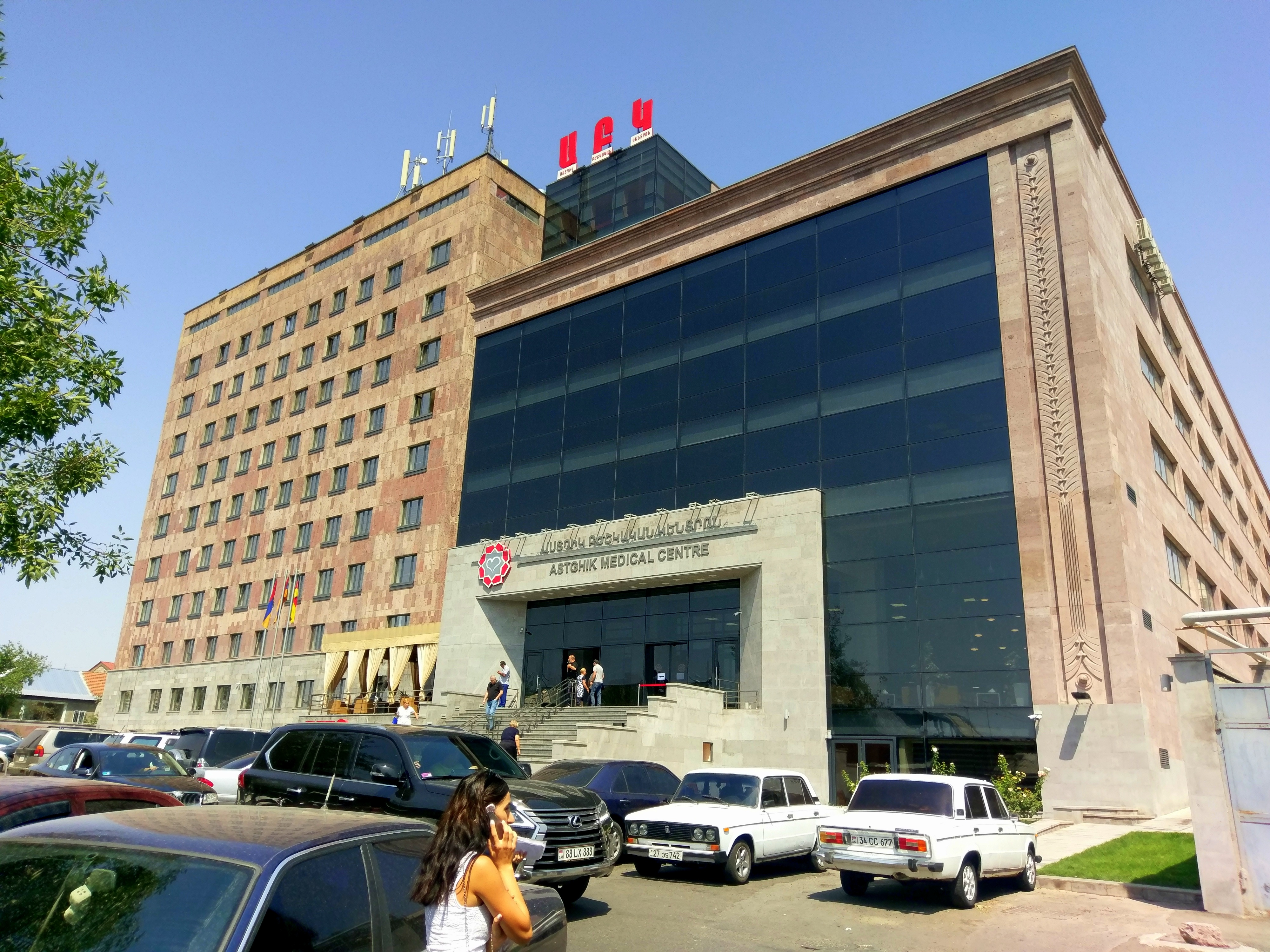 Astghik Hospital, Yerevan.